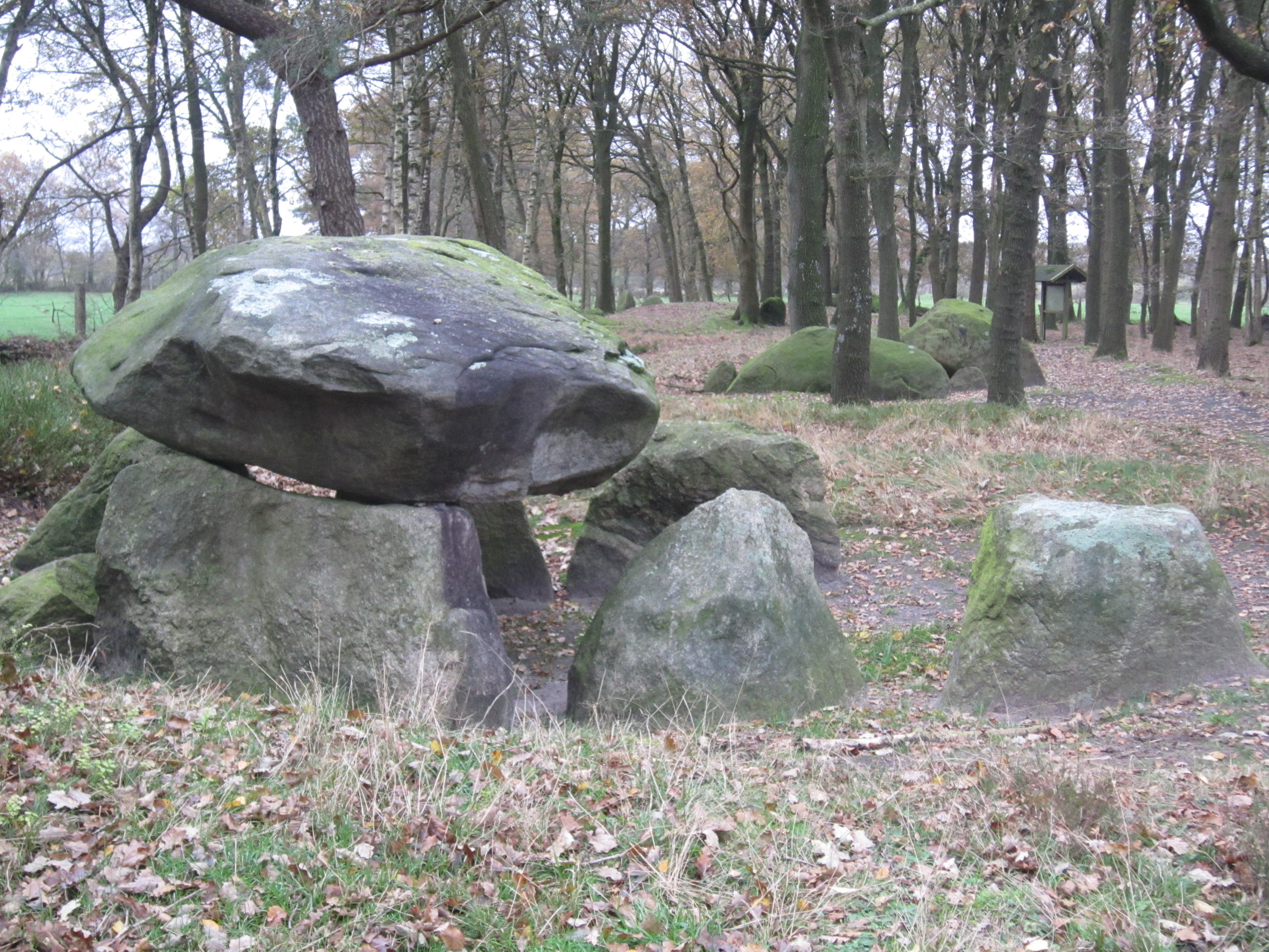 Dolmens "Bei Deymanns Mühle" in Stavern